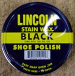 A picture of a can of Lincoln shoe polish.